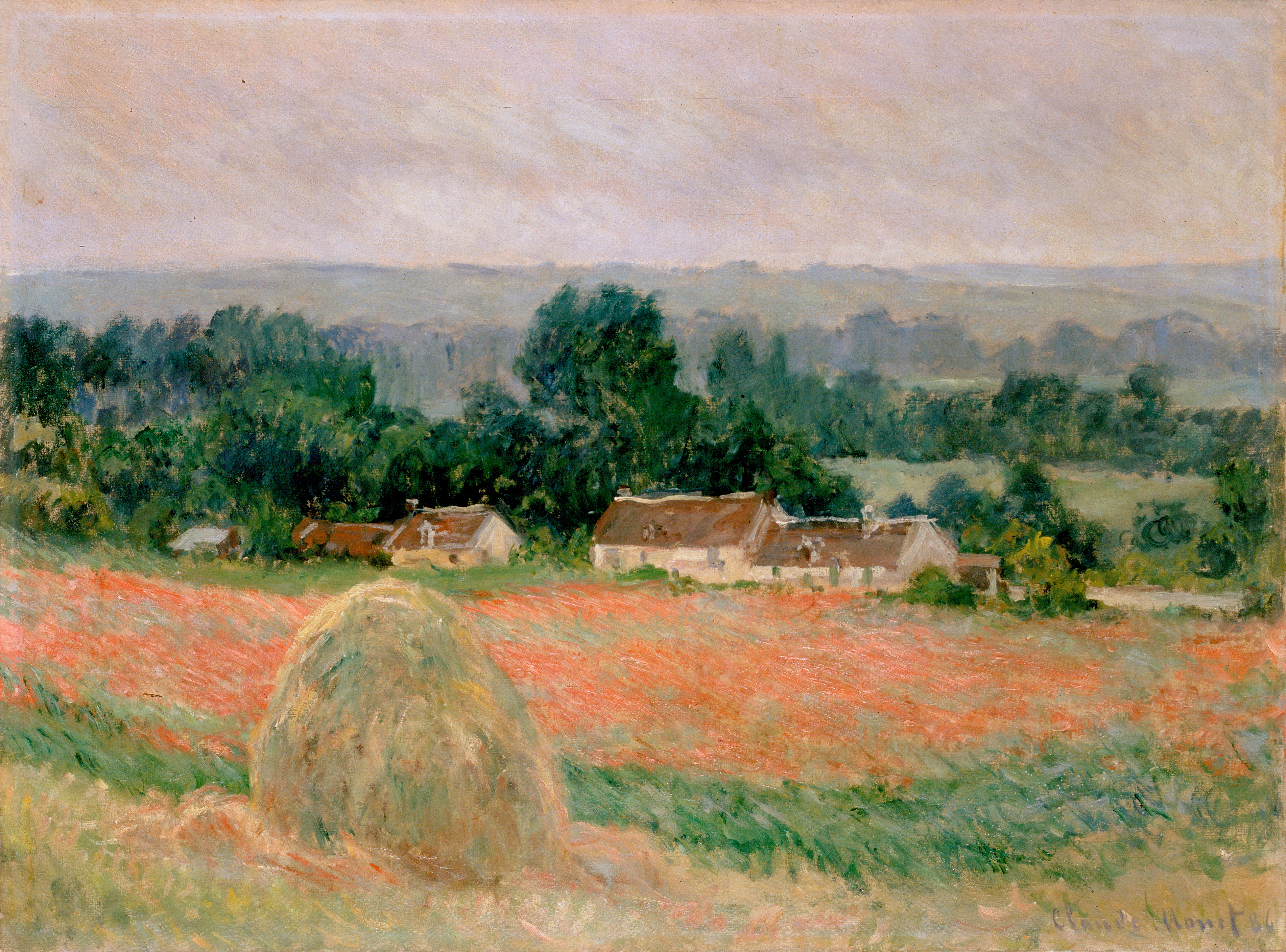 Haystack at Giverny (oil on canvas, 60.5x81.5 cm)